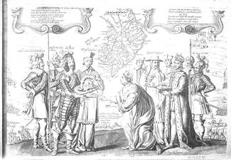 Alegoria de la secessió de Catalunya i integració a França